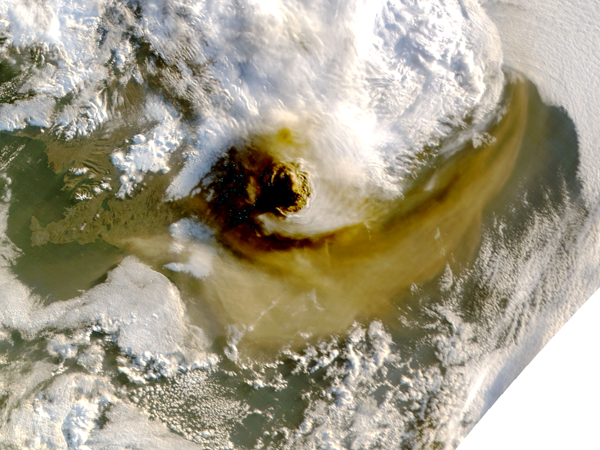 NASA MODIS satellite image acquired at 05:15 UTC on May 22, 2011 shows the plume casting shadow to the west. Credit: NASA/GSFC/Jeff Schmaltz/MODIS Land Rapid Response Team NASA Goddard Space Flight Center enables NASA’s mission through four scientific endeavors: Earth Science, Heliophysics, Solar System Exploration, and Astrophysics. Goddard plays a leading role in NASA’s accomplishments by contributing compelling scientific knowledge to advance the Agency’s mission. Follow us on Twitter Join us on Facebook